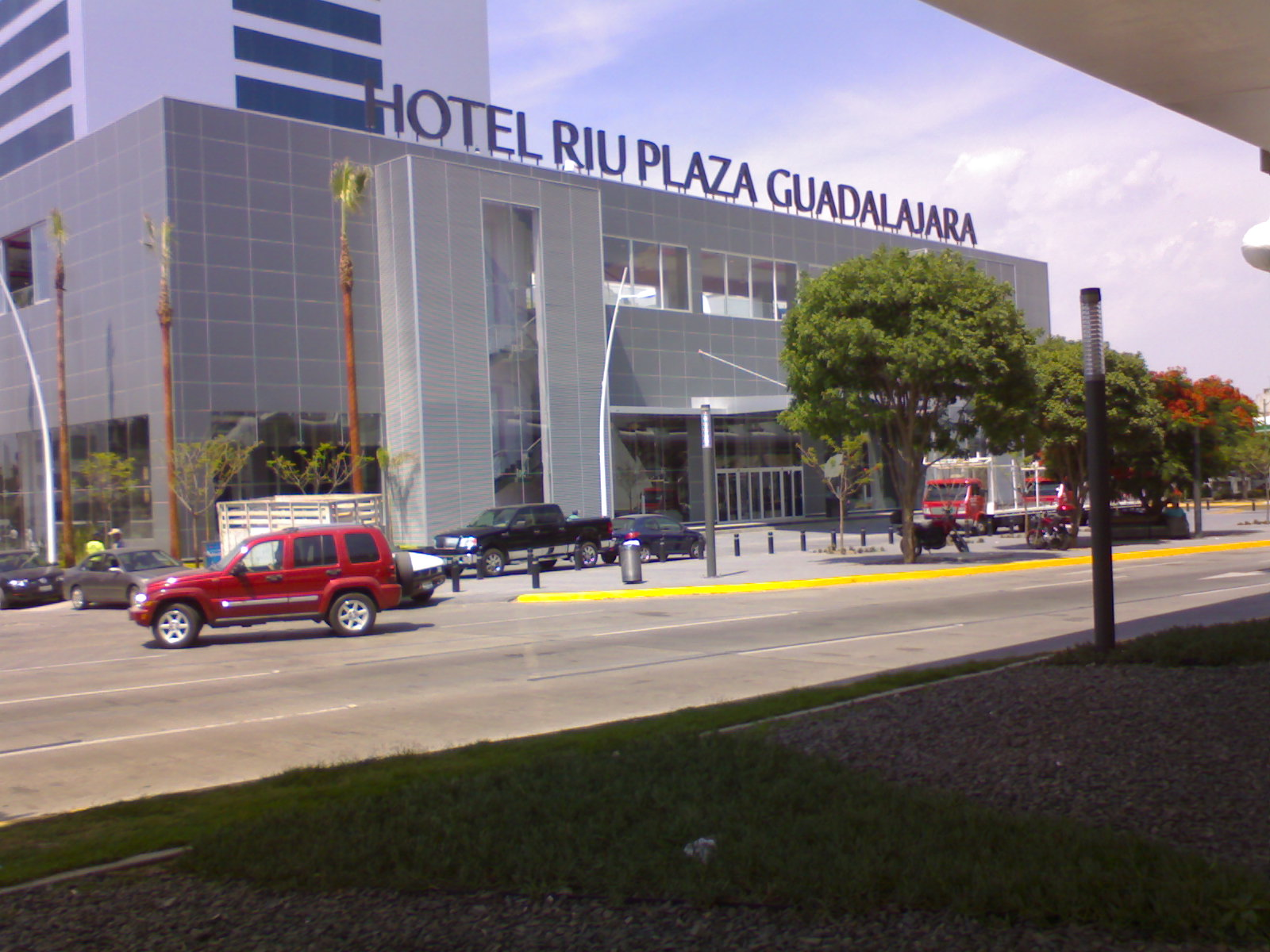 Riu Guadalajara